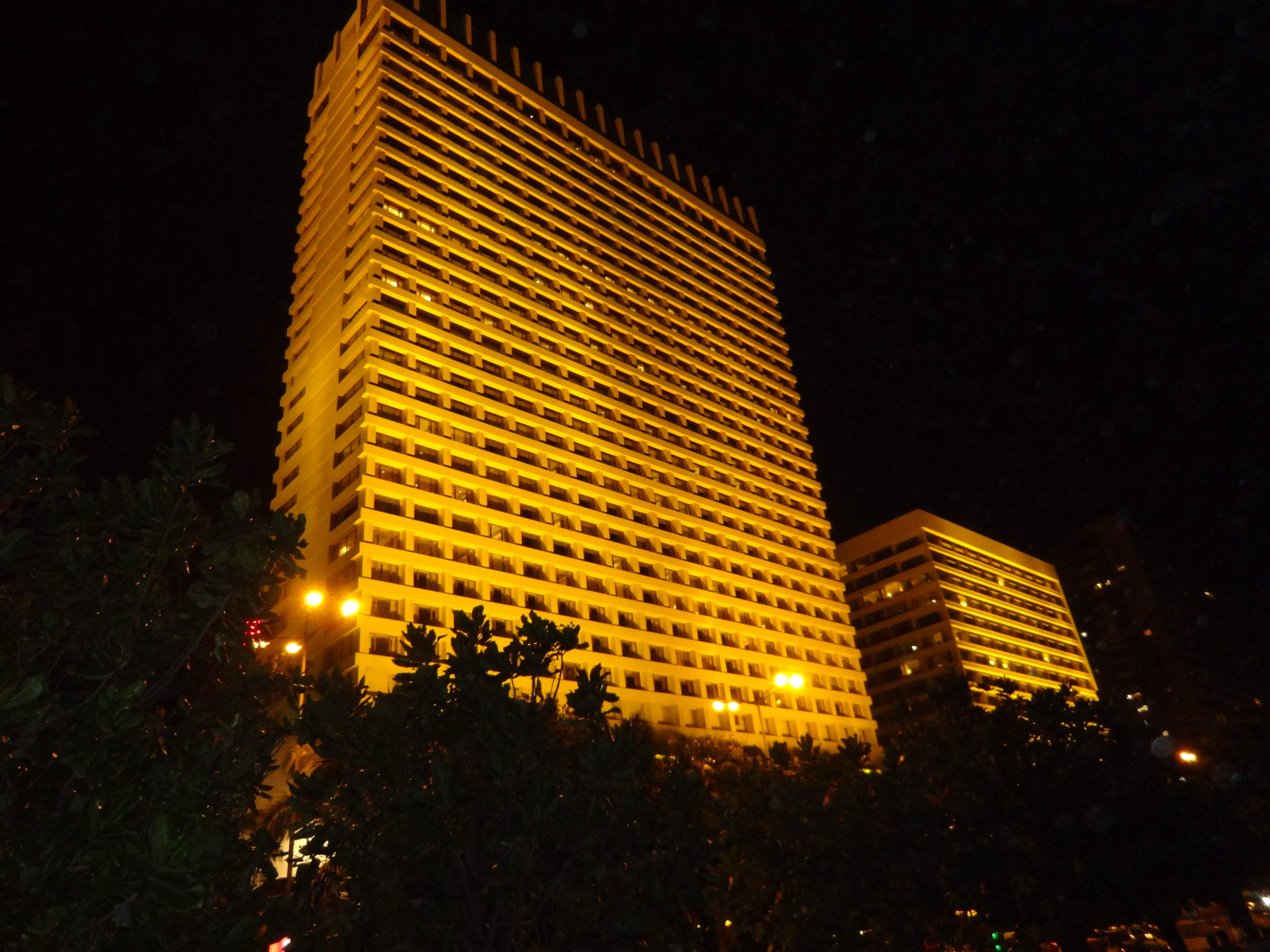 Oberoi Trident Mumbai